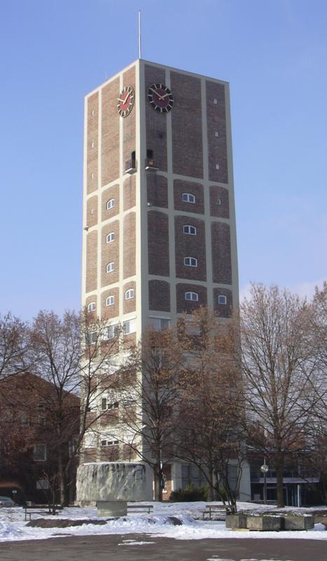 Town hall of Kornwestheim, Germany